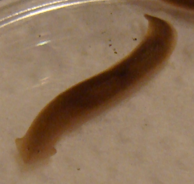 Dugesia arcadia from a stream near Chalandritsa (Peloponnese, Greece). Population analyzed in the papers Solà et al., 2013 and Sluys et al., 2013.